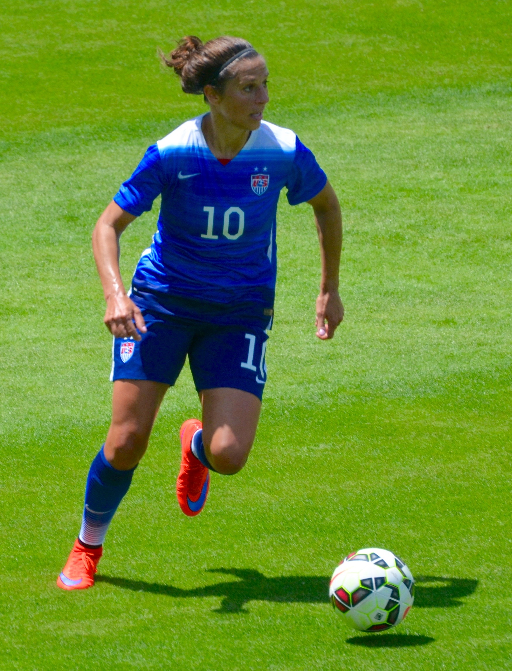 Carli Lloyd playing for the US Women's National Team in San Jose, California on 10 May 2015.